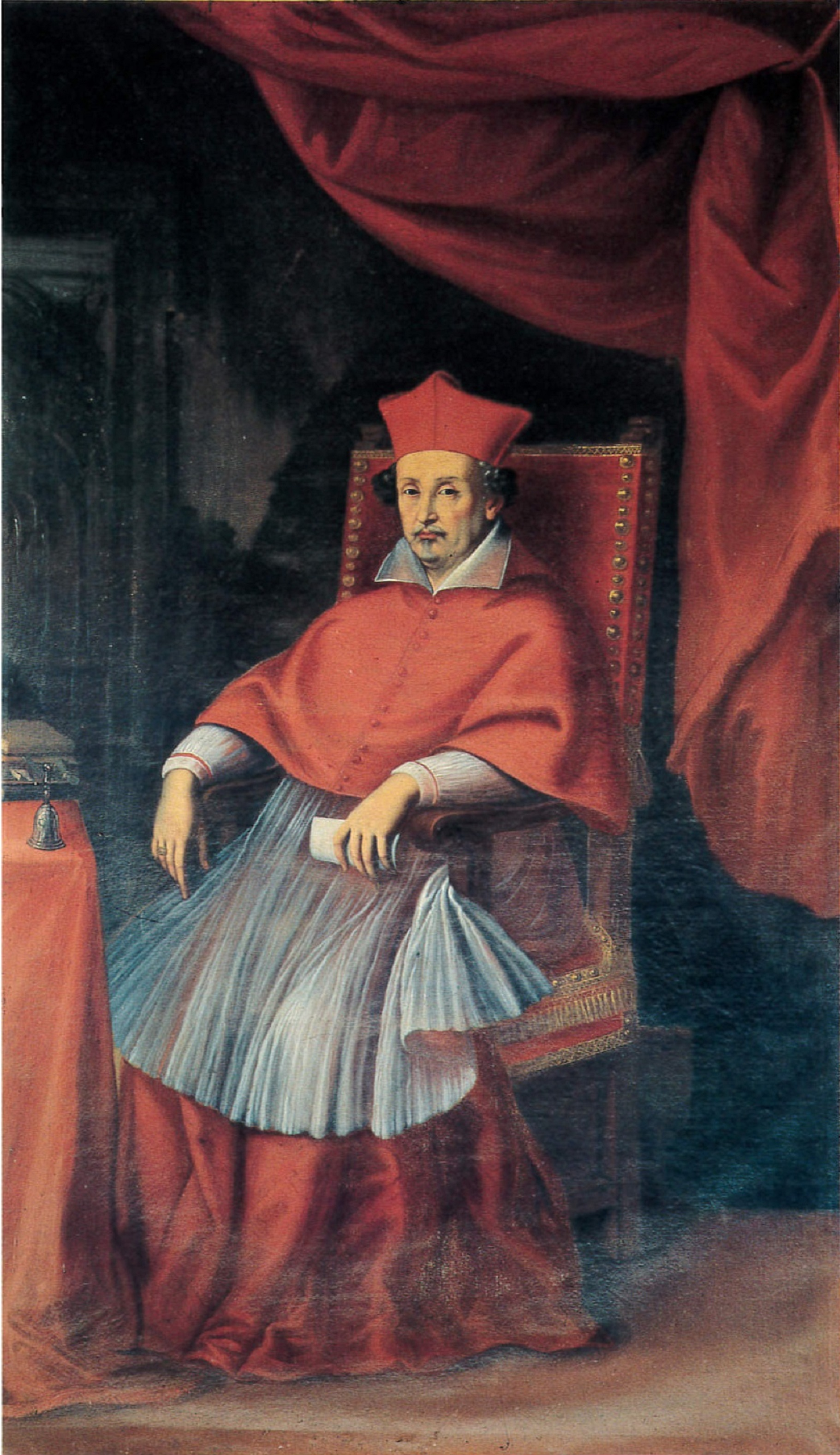 Portrait of Cardinal Frederich Borromeo bischoff of Milan